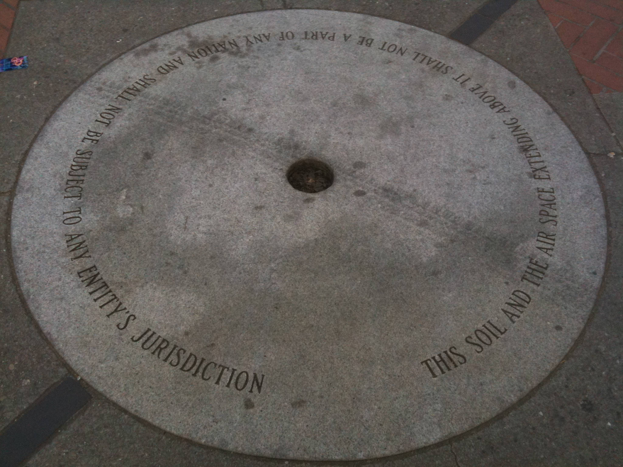 The Free Speech Monument in Sproul Plaza, Berkeley, California by artist Mark Brest Van Kampen.